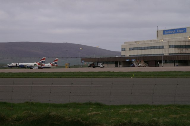 Sumburgh Airport